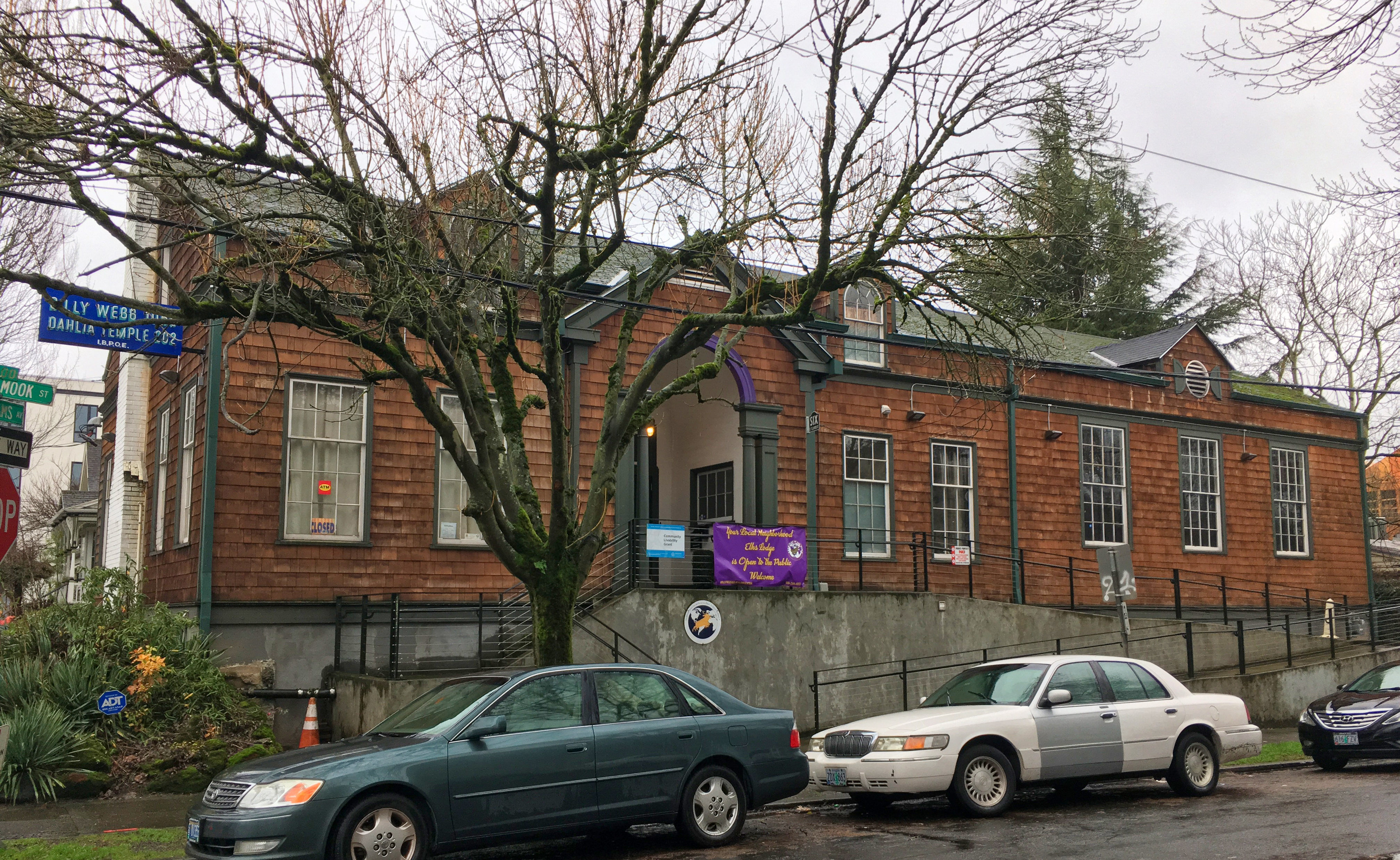 The historic Williams Avenue YWCA (built 1926), located at 6 North Tillamook Street in Portland, Oregon, United States, is listed on the U.S. National Register of Historic Places. As of the photo date, the building in use as the Billy Webb Elks Lodge #1050.